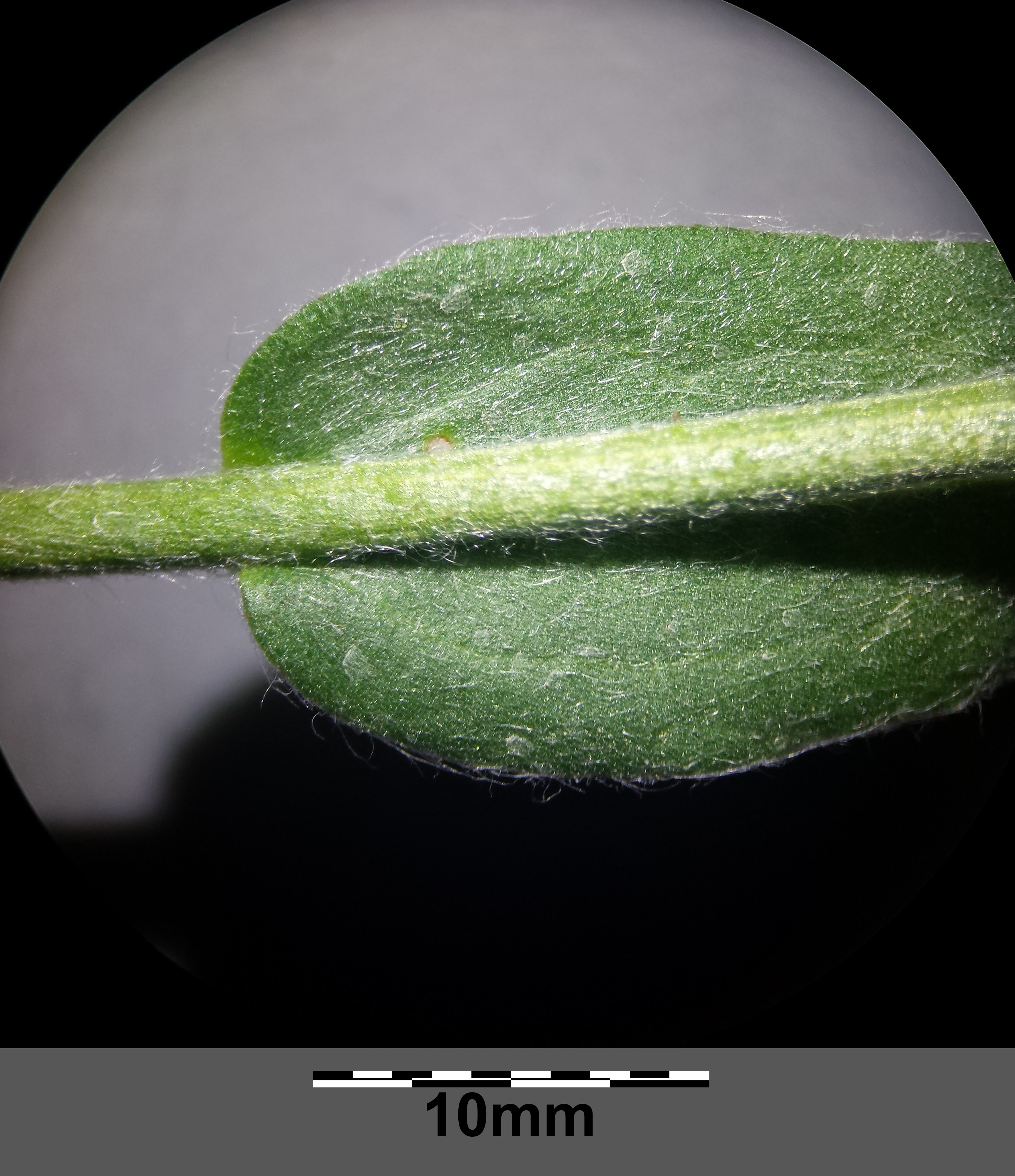 Stem with leaf (top side) Taxonym: Cynoglossum officinale ss Fischer et al. EfÖLS 2008 ISBN 978-3-85474-187-9 Location: Burgstall to the North of Großmugl, district Korneuburg, Lower Austria - 280 m a.s.l. Habitat: slope